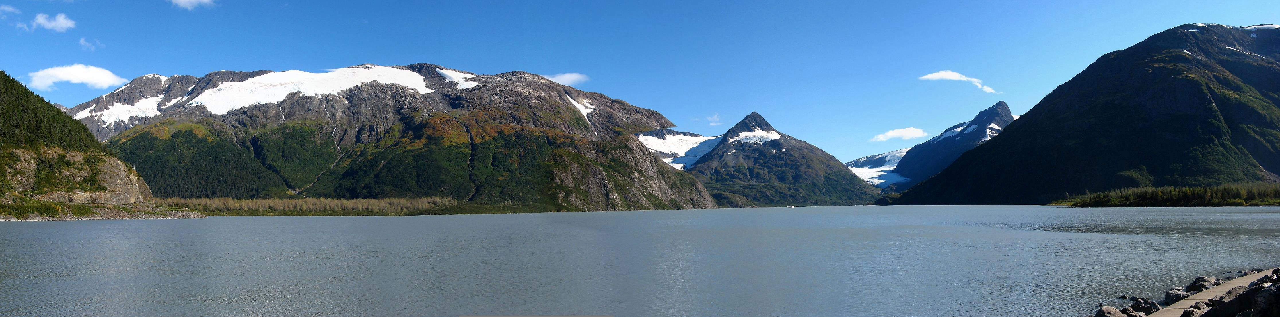 Taken near the Portage Glacier Visitor Center, Alaska, in September 2007